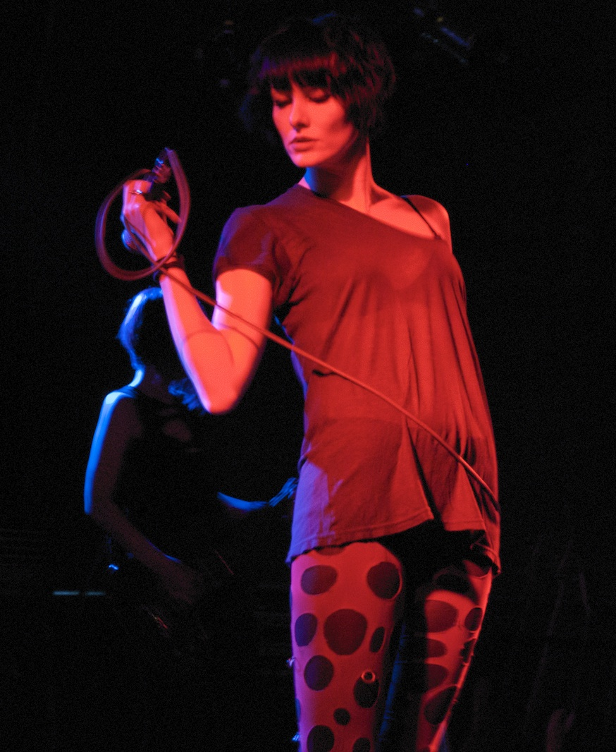 Tying Tiffany - Live in Florence